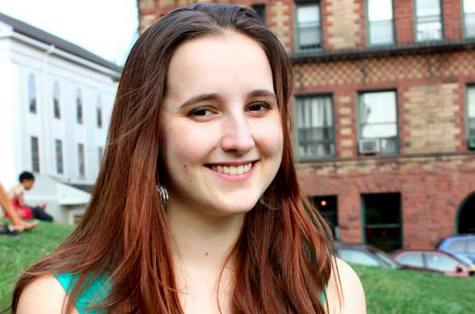 Derivative of File:Keilana portrait.jpeg